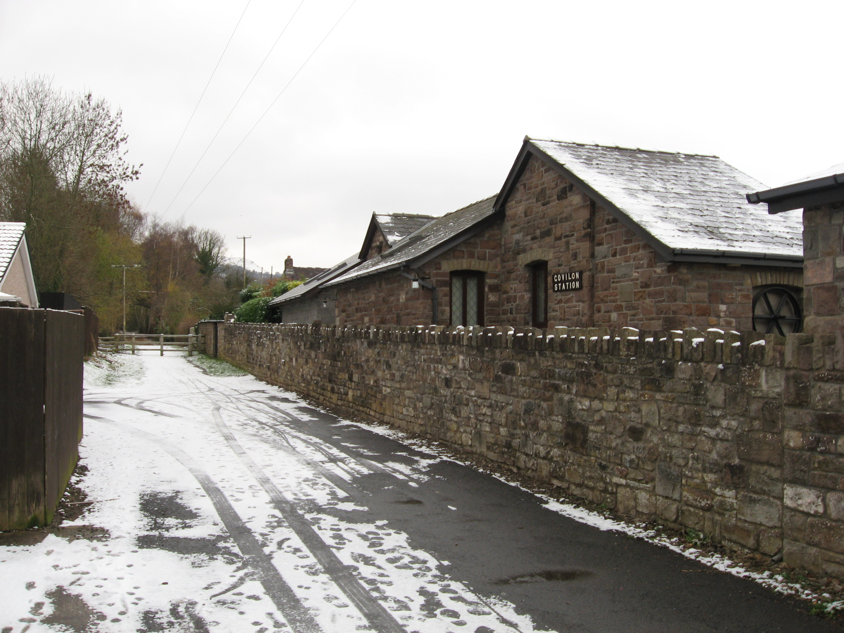 The former Govilon station The now cycle path was once the Merthyr, Tredegar & Abergavenny Railway.